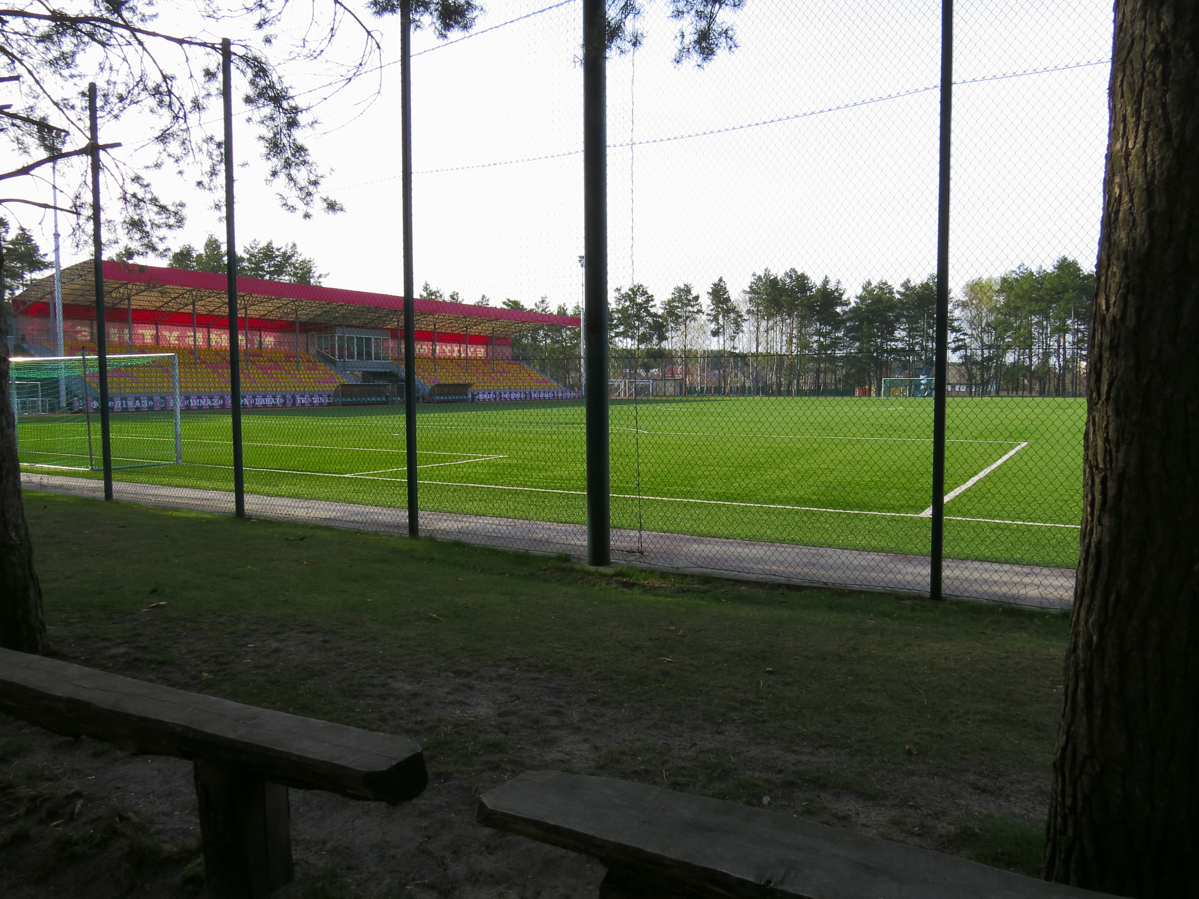 FC "Dinaz" Stadium in Lutizh village, Vyshhorod raion, Kiev oblast, Ukraine